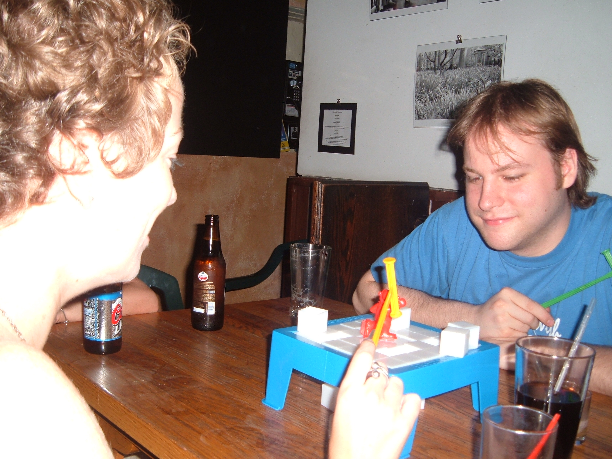 A Game of Don't Break the Ice.